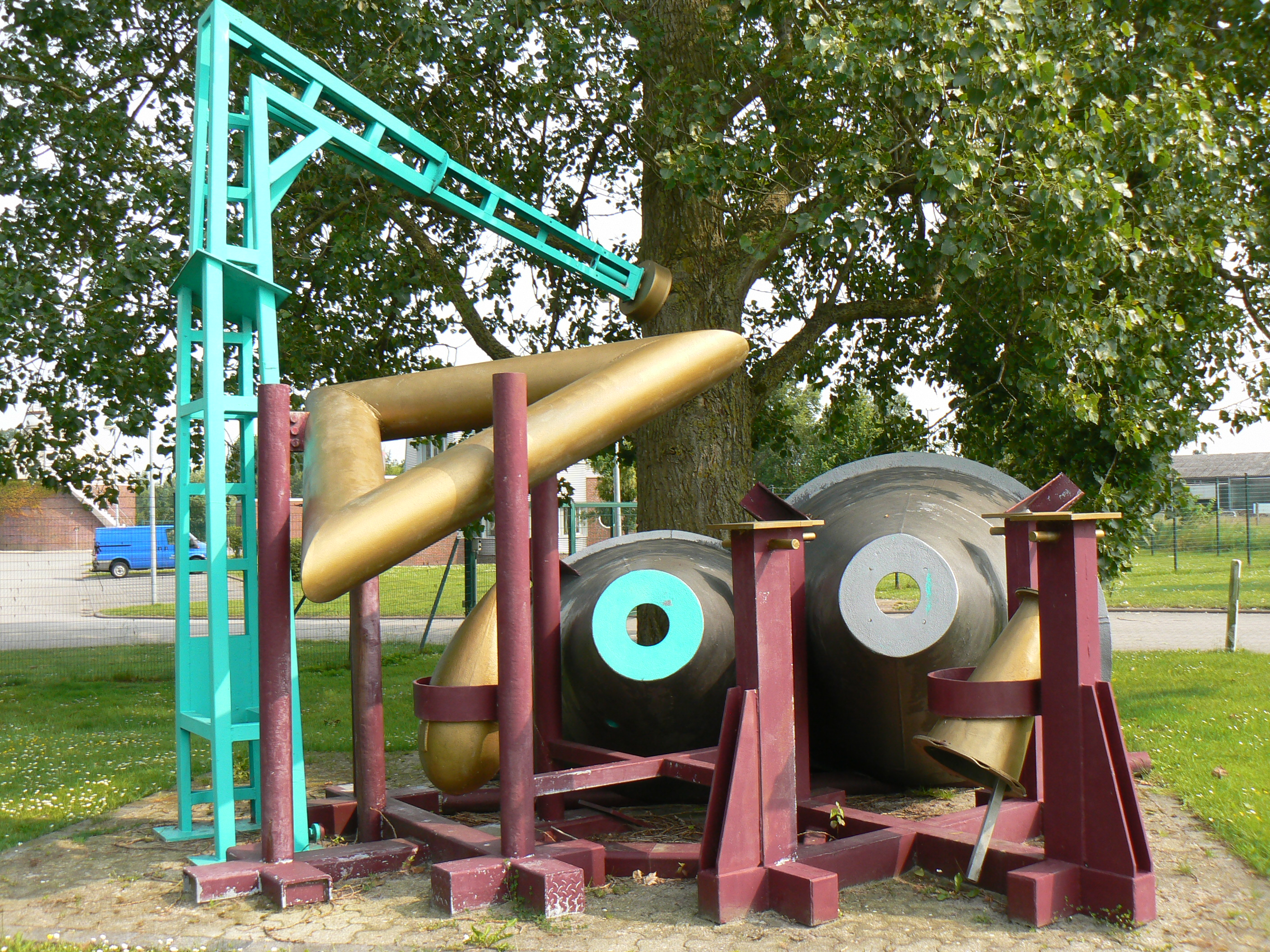 Sculpture D.L.Thompson in Wittmund/Germany